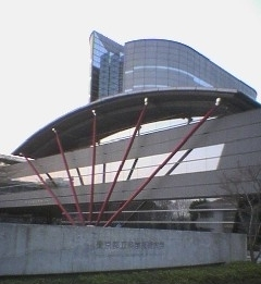 Tokyo Metoropolitan Institute of Technology